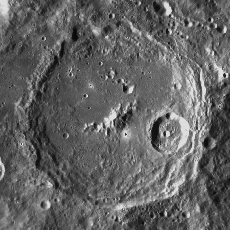 Keeler lunar crater - LROC image.